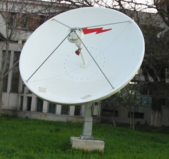 Satellite dish antenna for C-Band. From the Politehnica University - Bucharest, Romania